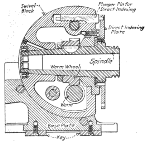 Vertical cross-section of a Brown and Sharpe indexing head.